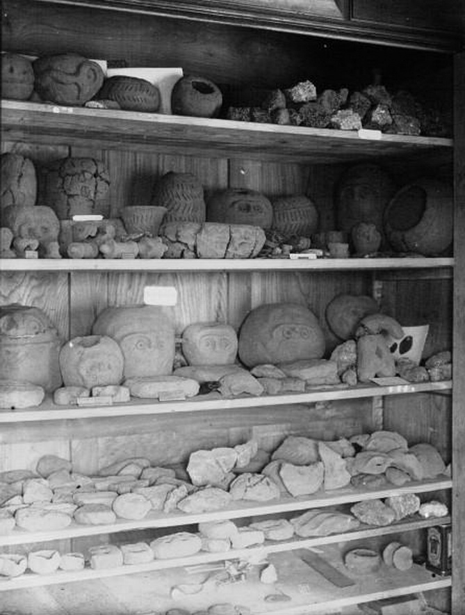 Glozel museum (Ferrières-sur-Sichon, Allier, France).